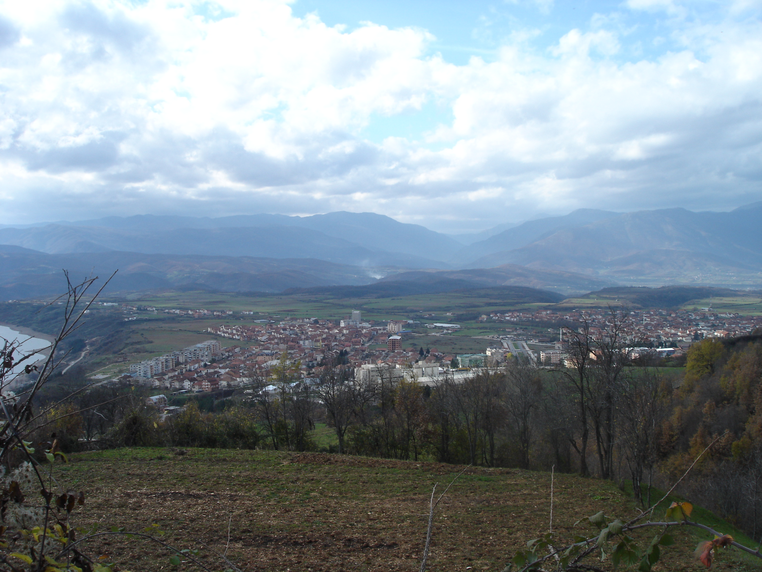 View of the town of Debar from the village of Rajcica, Macedonia